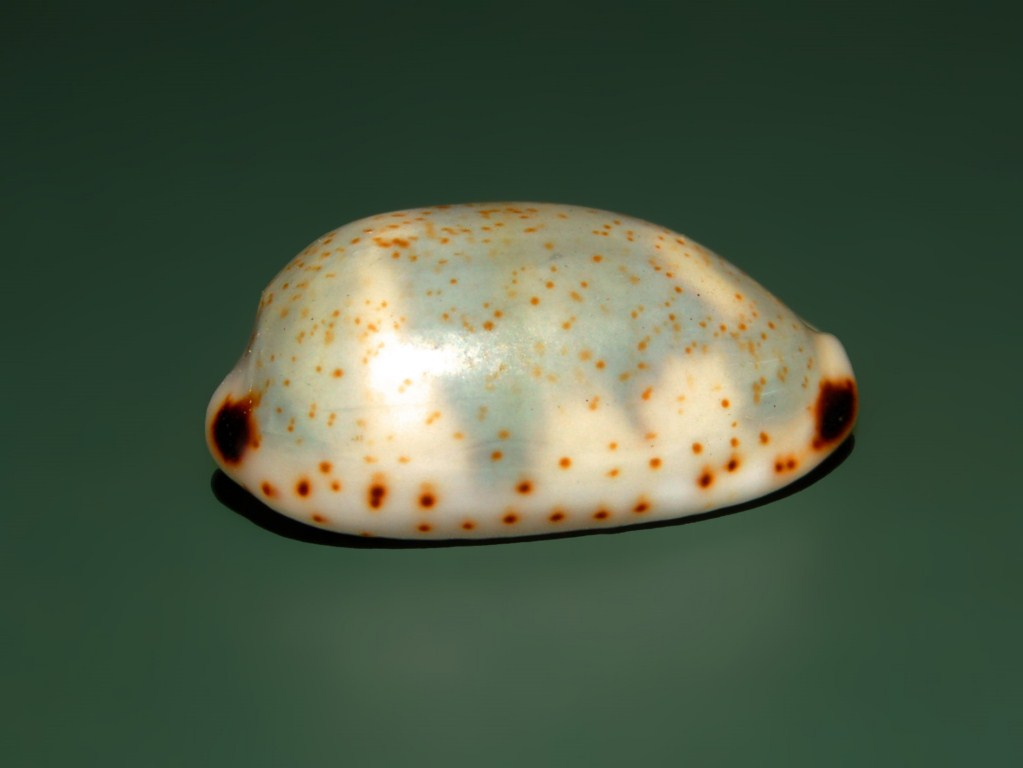 Bistolida kieneri - India